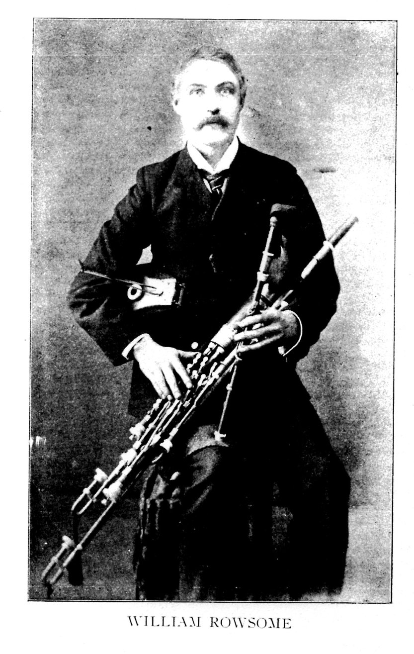 Irish uilleann piper and maker William Rowsome